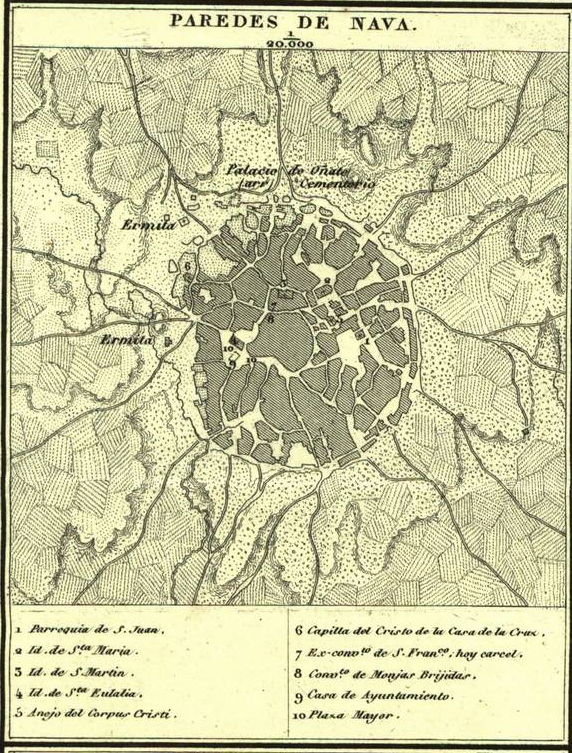 Map of Paredes de Nava cropped from the 1852 province of Palencia map by Francisco Coello